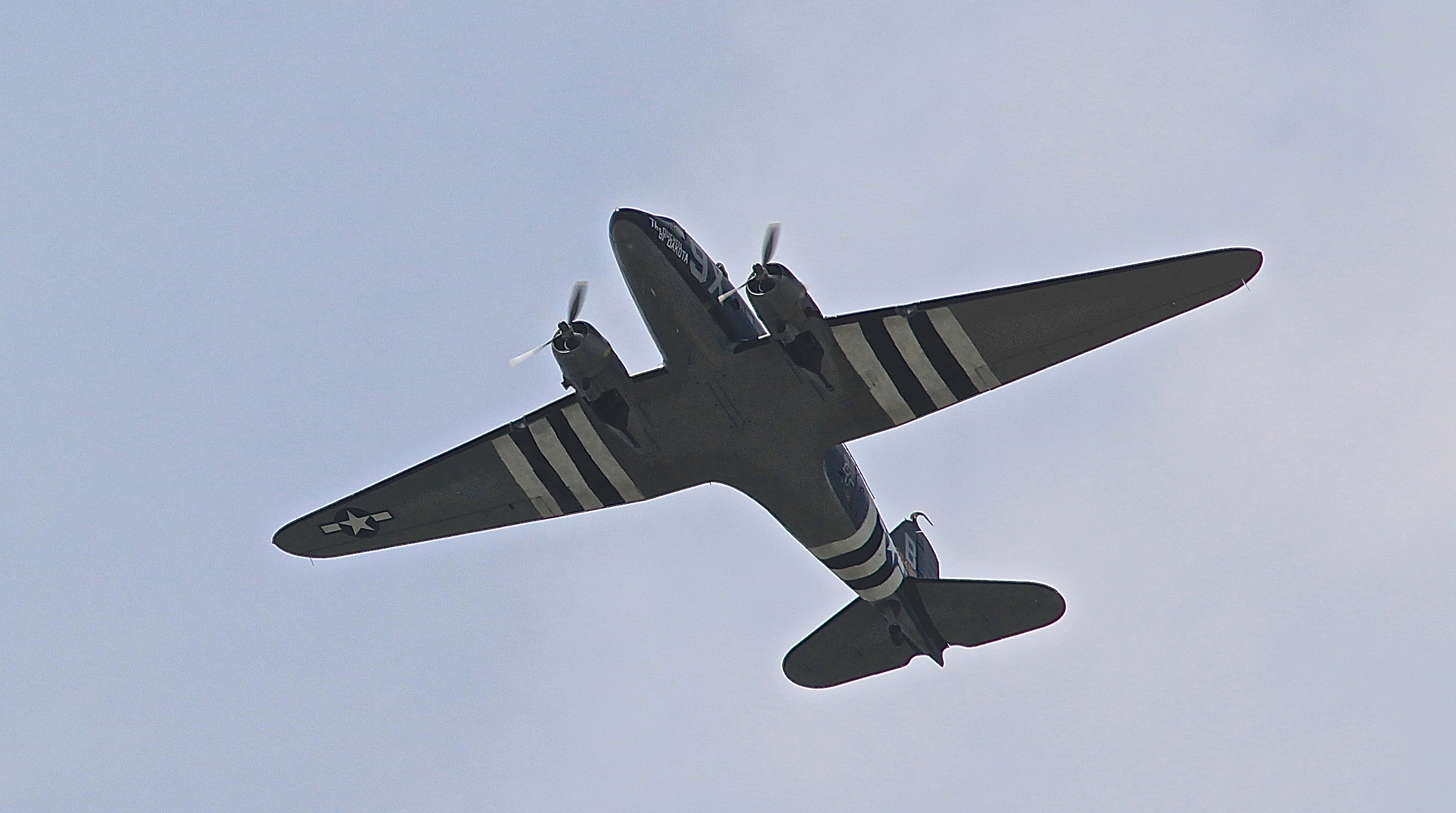 Invasion stripes - VE Day 2015 in Washington DC. Arsenal of Democracy World War II Victory Capitol Flyover, Friday, May 8, 2015, on the 70th anniversary of Victory in Europe (VE) Day.